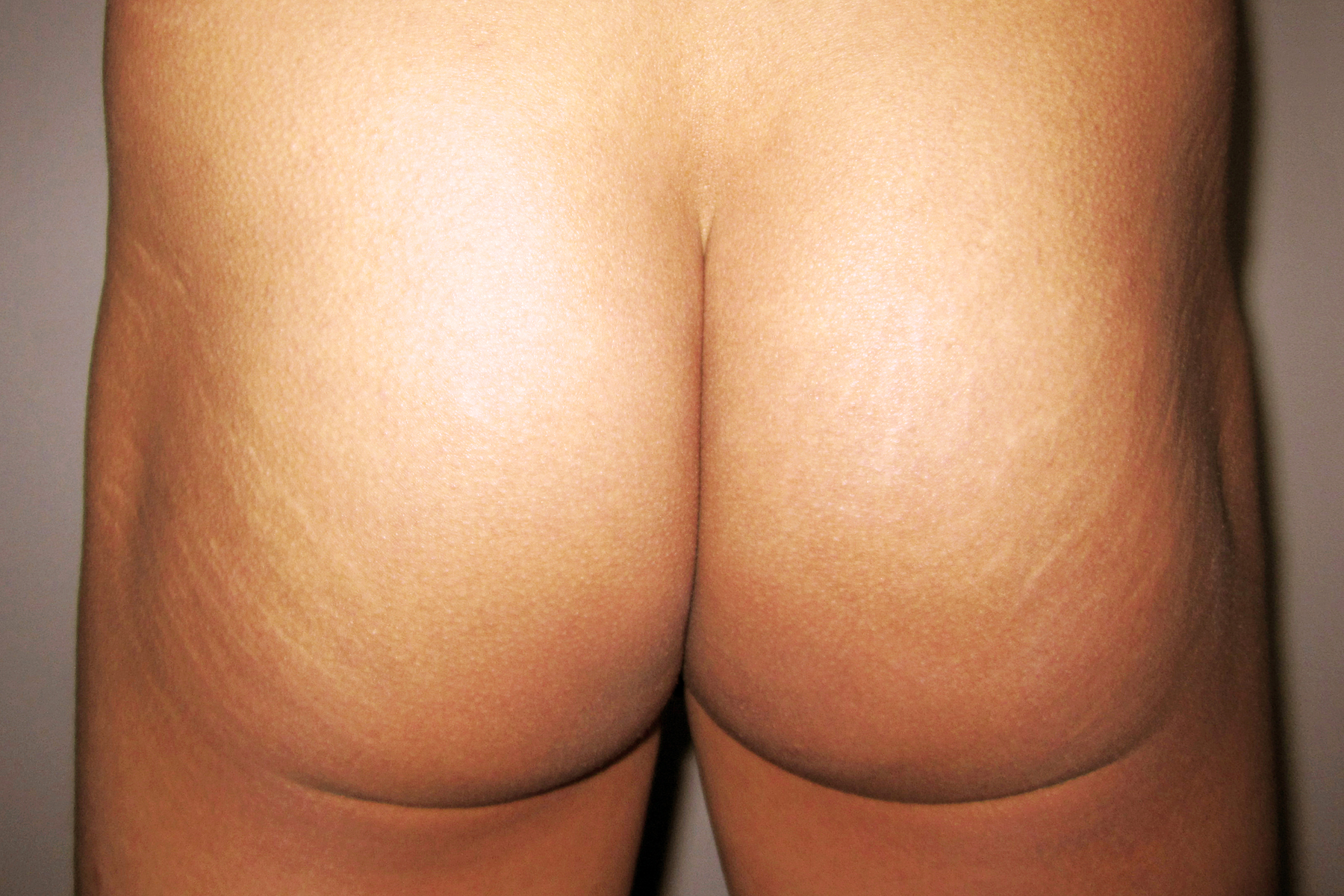 Buttocks of a male human.